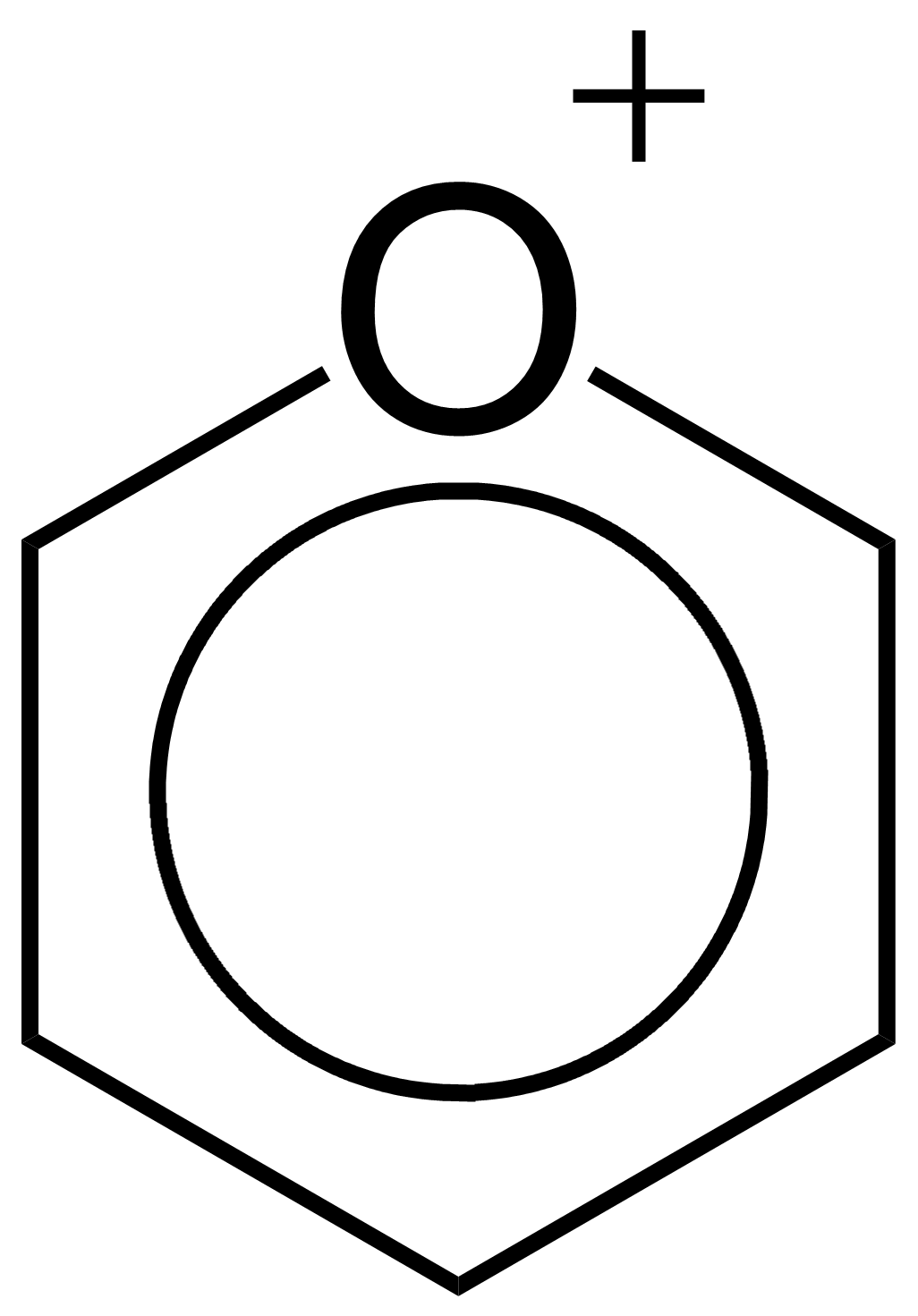 Pyranium cation